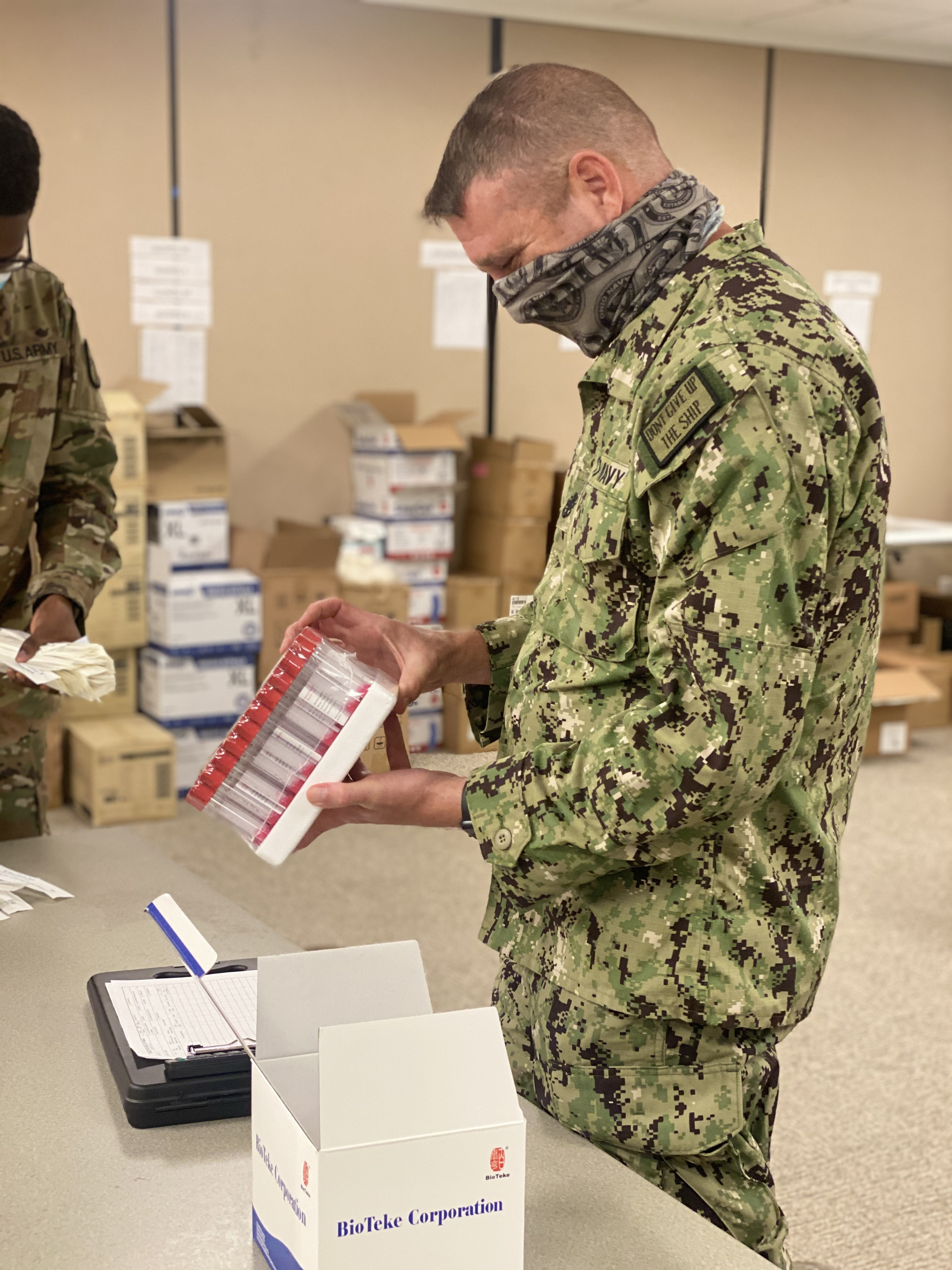 Ohio Naval Militia Chief Petty Officer Robert Mowry, a former active U.S. Navy hospital corpsman, inventories COVID-19 testing kits July 7, 2020, in Columbus, Ohio. Mowry is among about 100 personnel serving on COVID-19 mobile testing teams, which have been traveling all over the state collecting samples from thousands of Ohioans, including at congregate care facilities such as nursing homes.